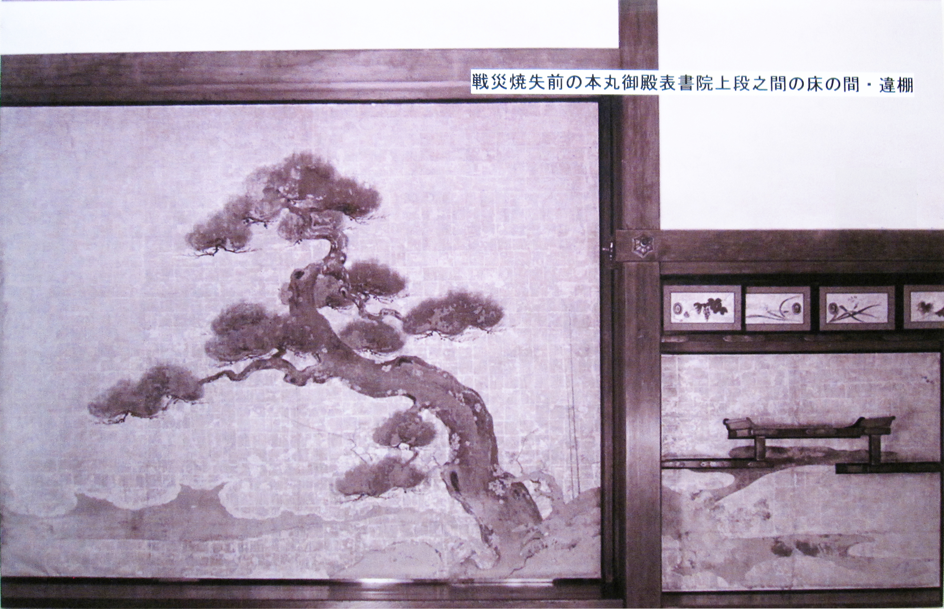 Honmaru Palace of Nagoya Castle before its destruction in 1945.